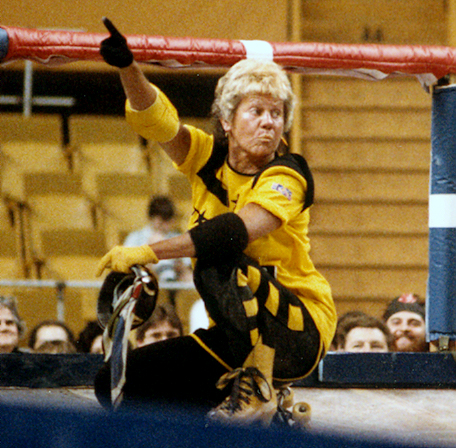 Buffalo, NY